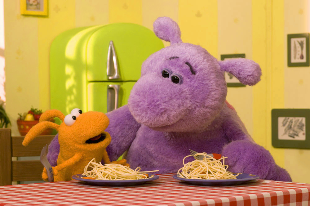 Publicity still for English children's television series Big & Small